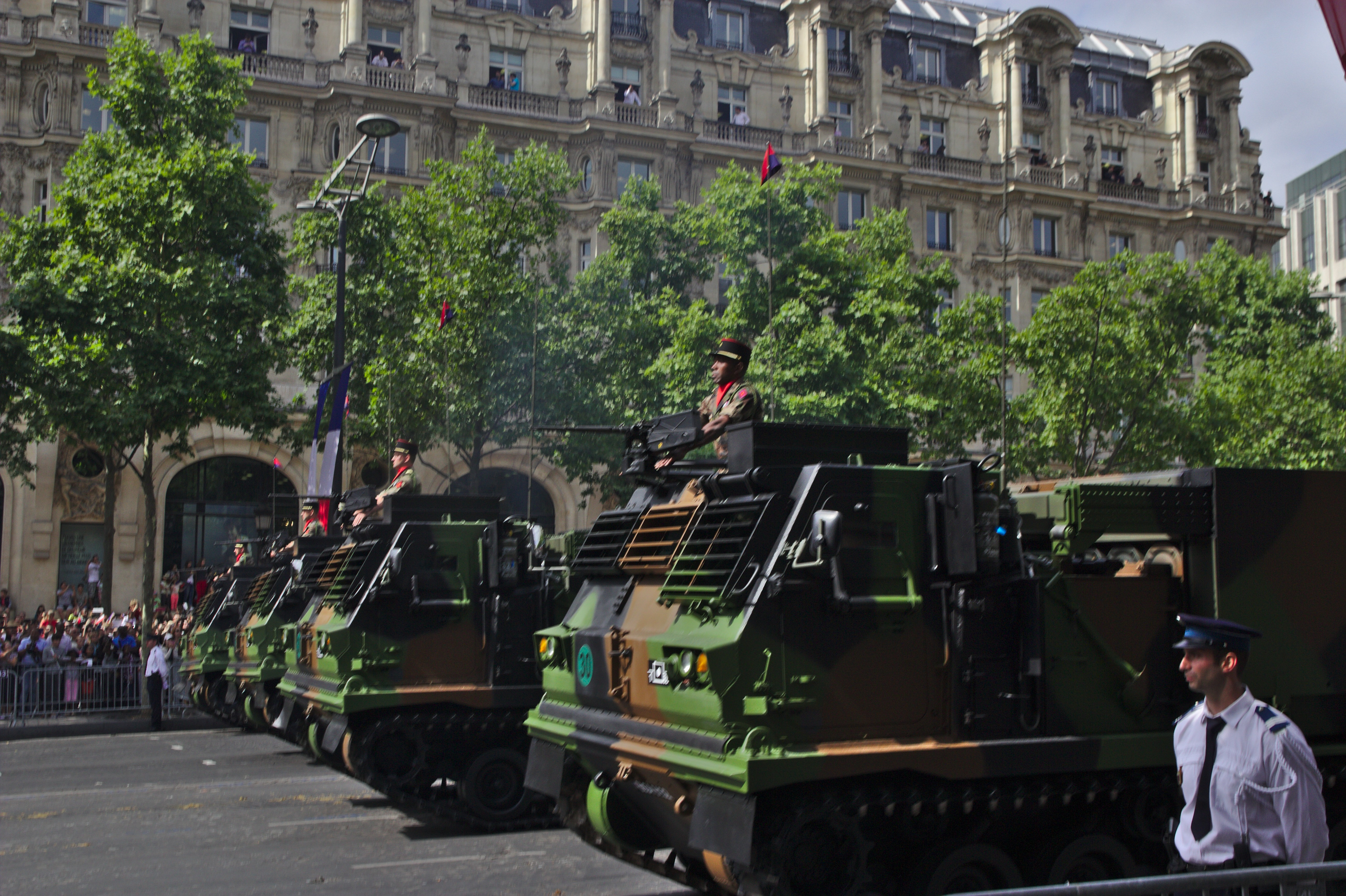 Bastille Day 2015 military parade in Paris. M270 MLRS of 1er régiment d'artillerie.